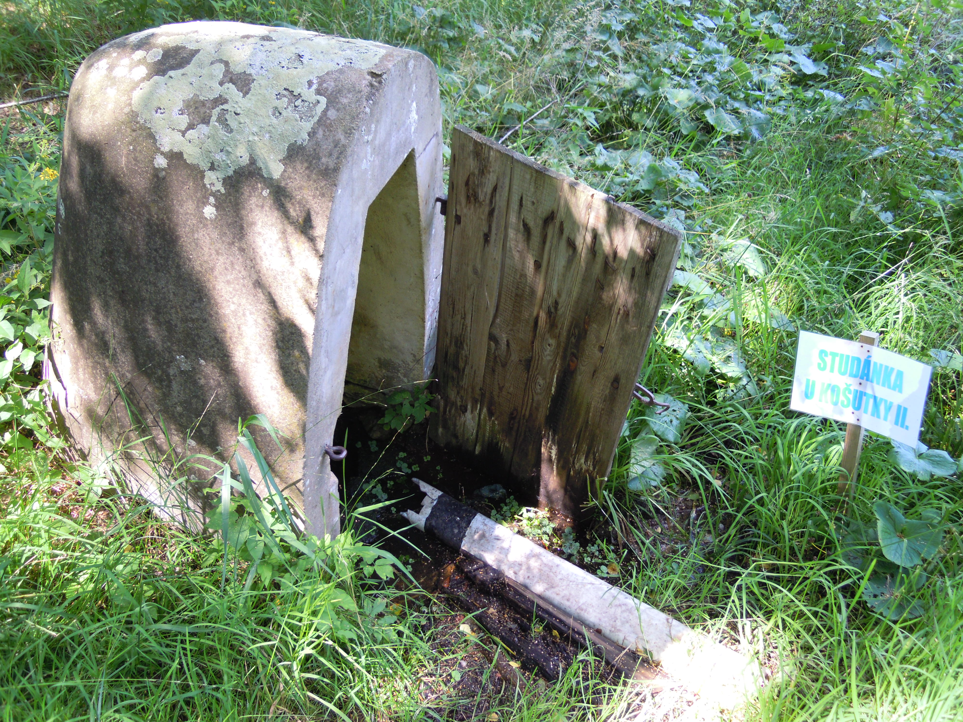 Spring "U Košutky" or "Petrovka" near Nature reserve Petrovka in Bolevec (Pilsen)